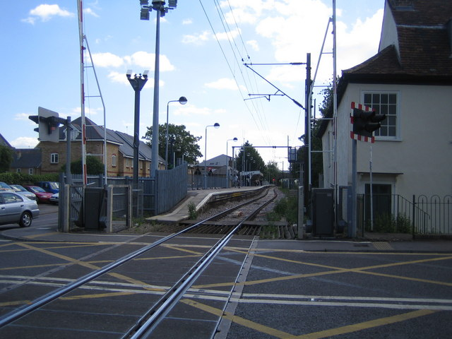 Ware railway station, from its adjacent level crossing.